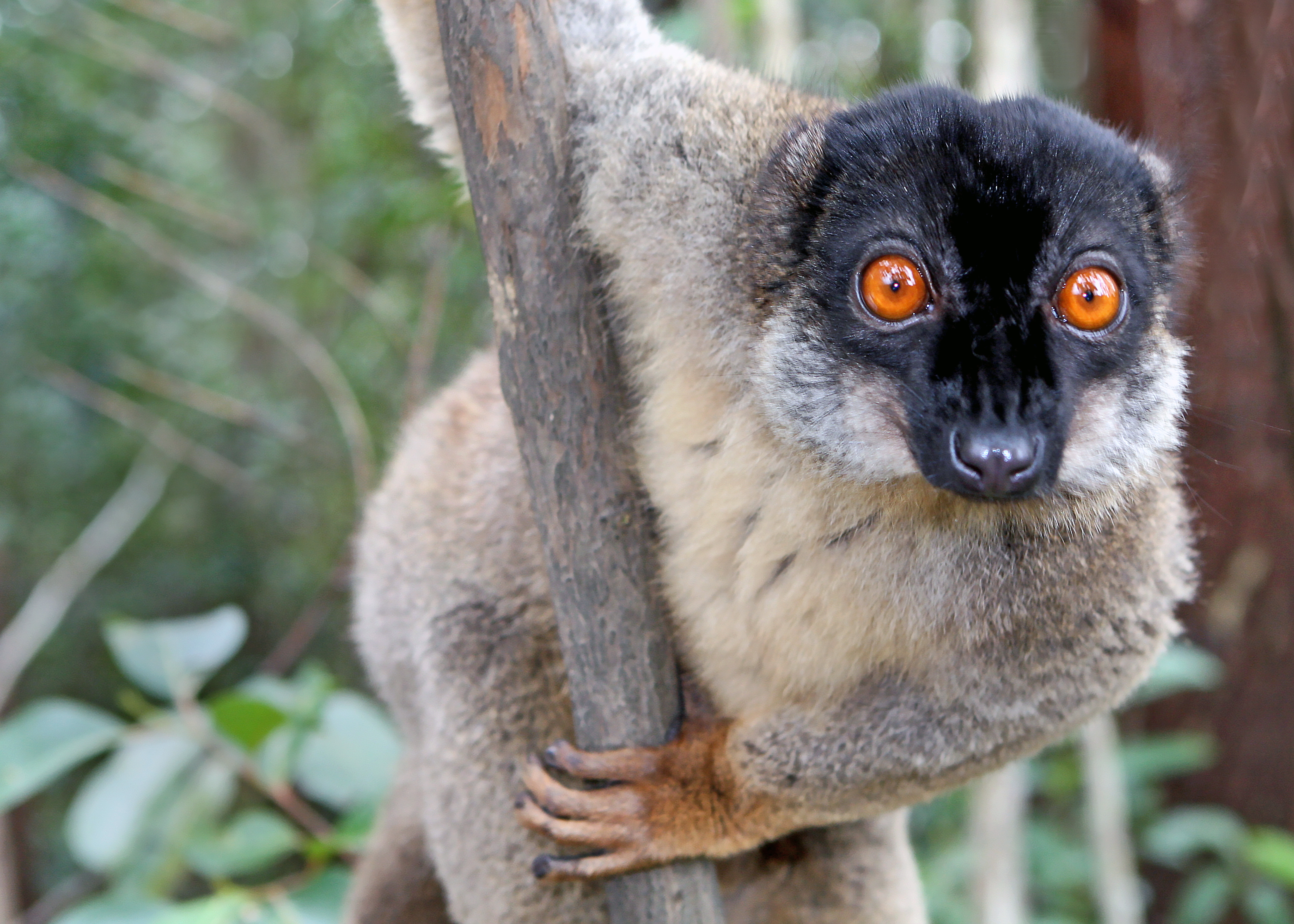 Common Brown Lemur (Eulemur fulvus) in Andasibe